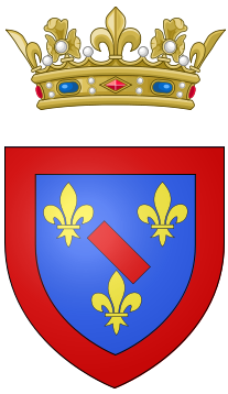 Coat of arms of the Prince of Conti